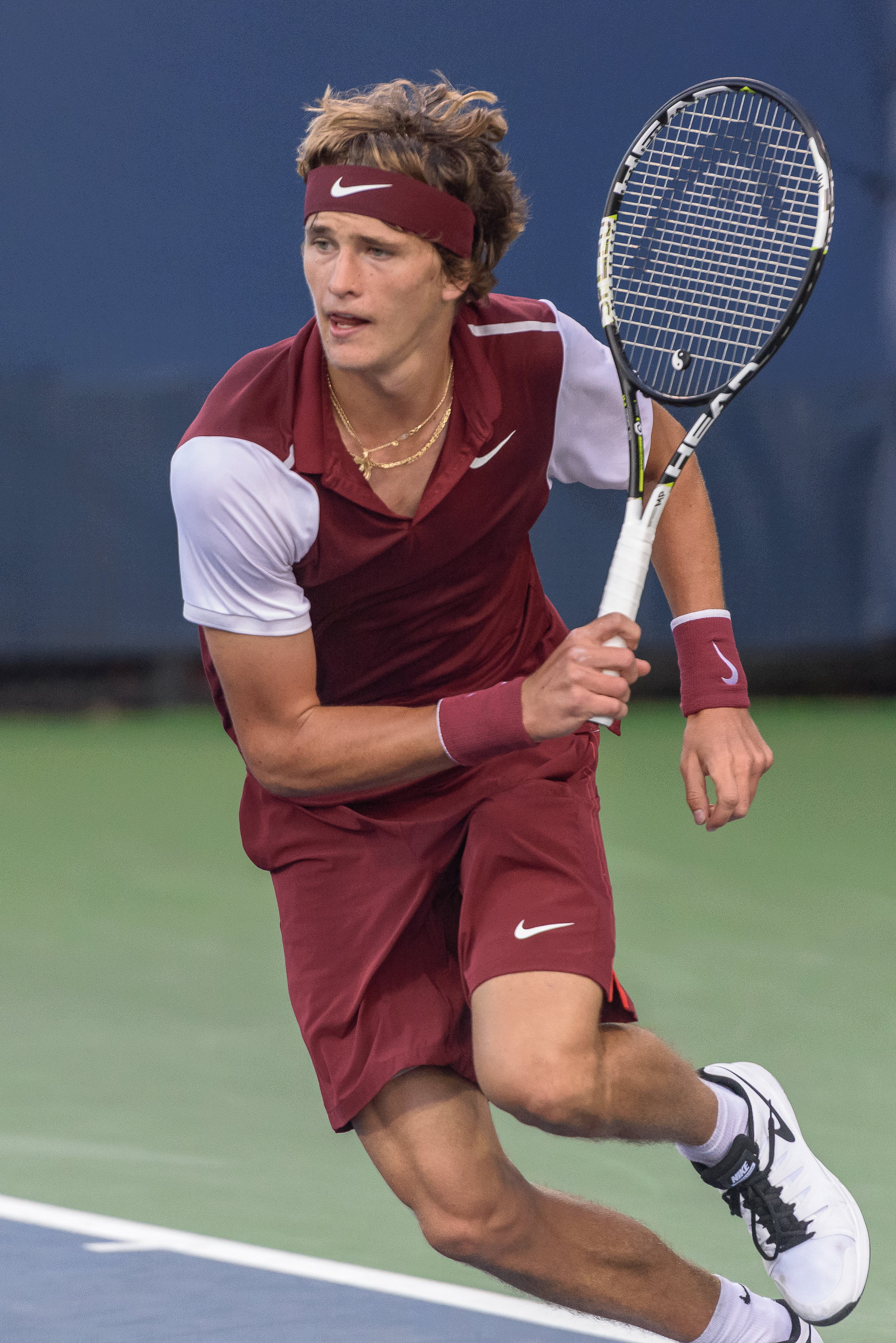 August 27, 2015 Court 16 Flushing, NY